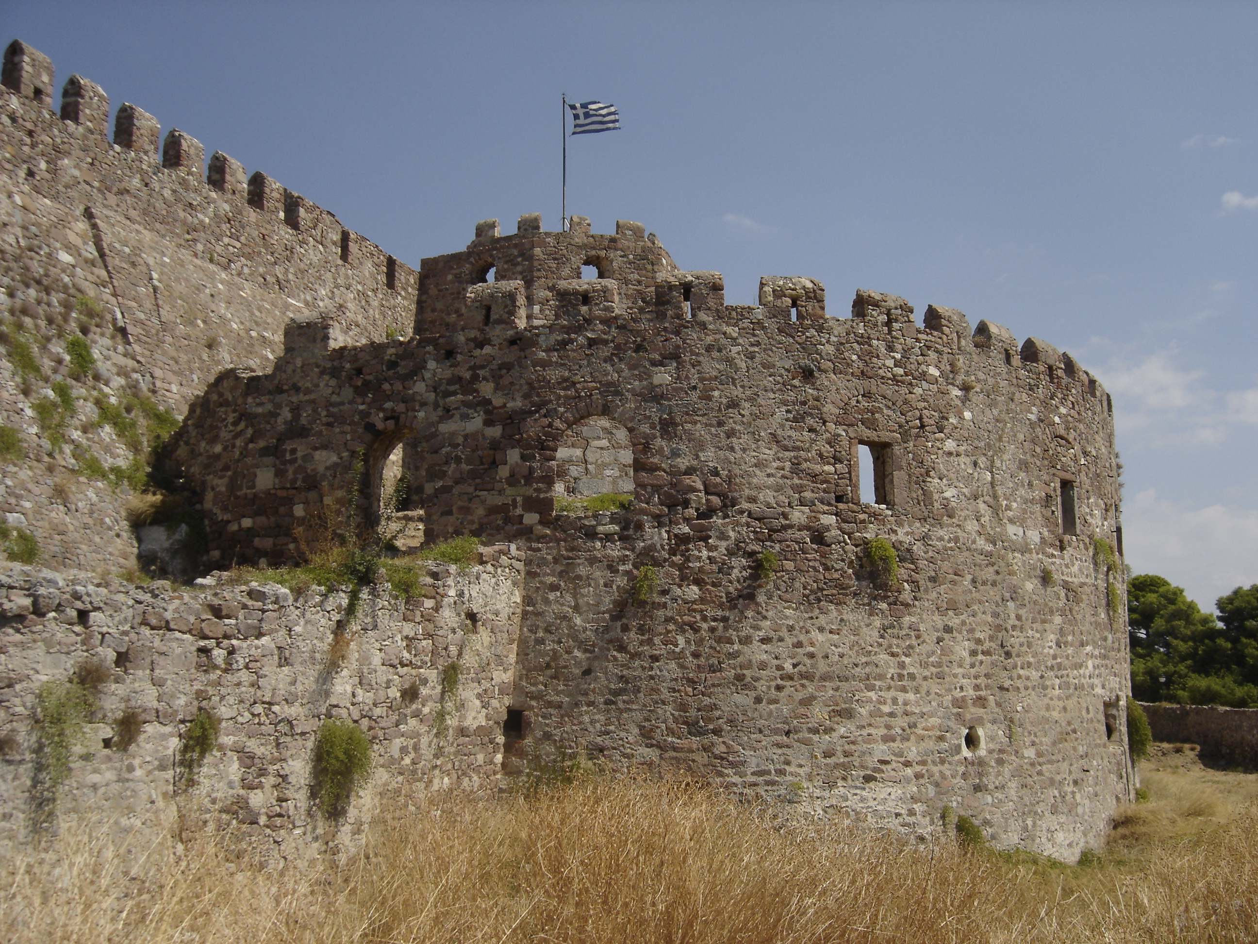 South-SouthWest entrance of medieval castle, Mytilene